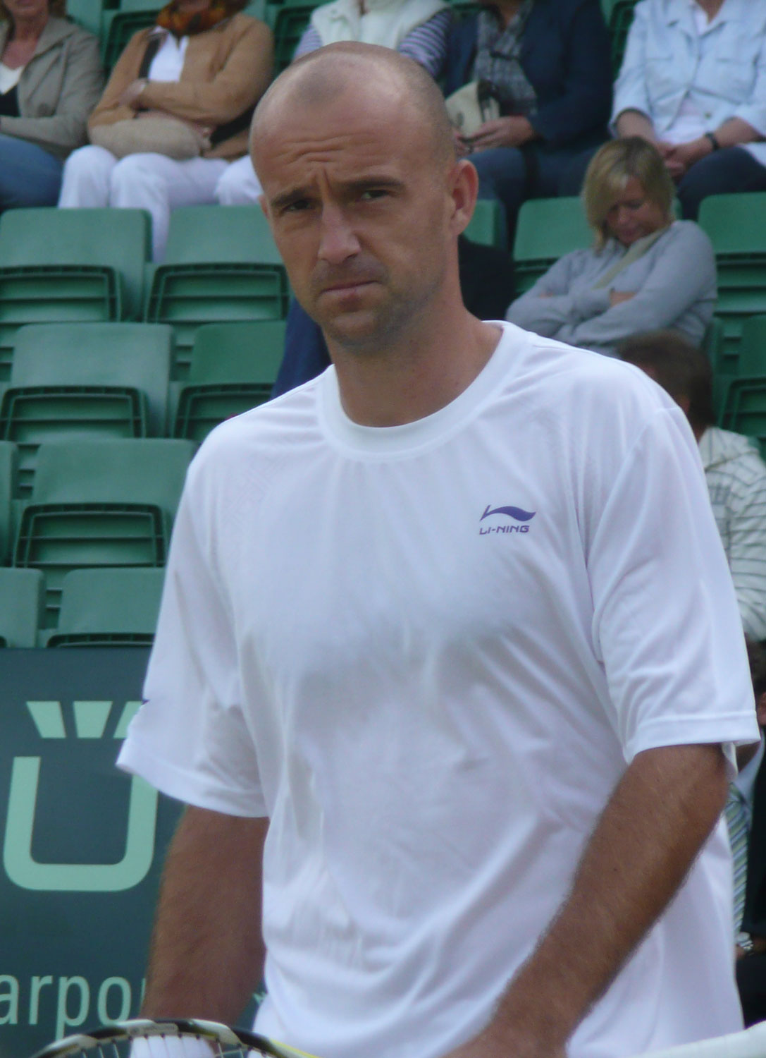 Gerry Weber Open 2008 - Court 1, Quarter-final: Ivan Ljubičić/Robin Söderling vs. Jonathan Erlich/Andy Ram